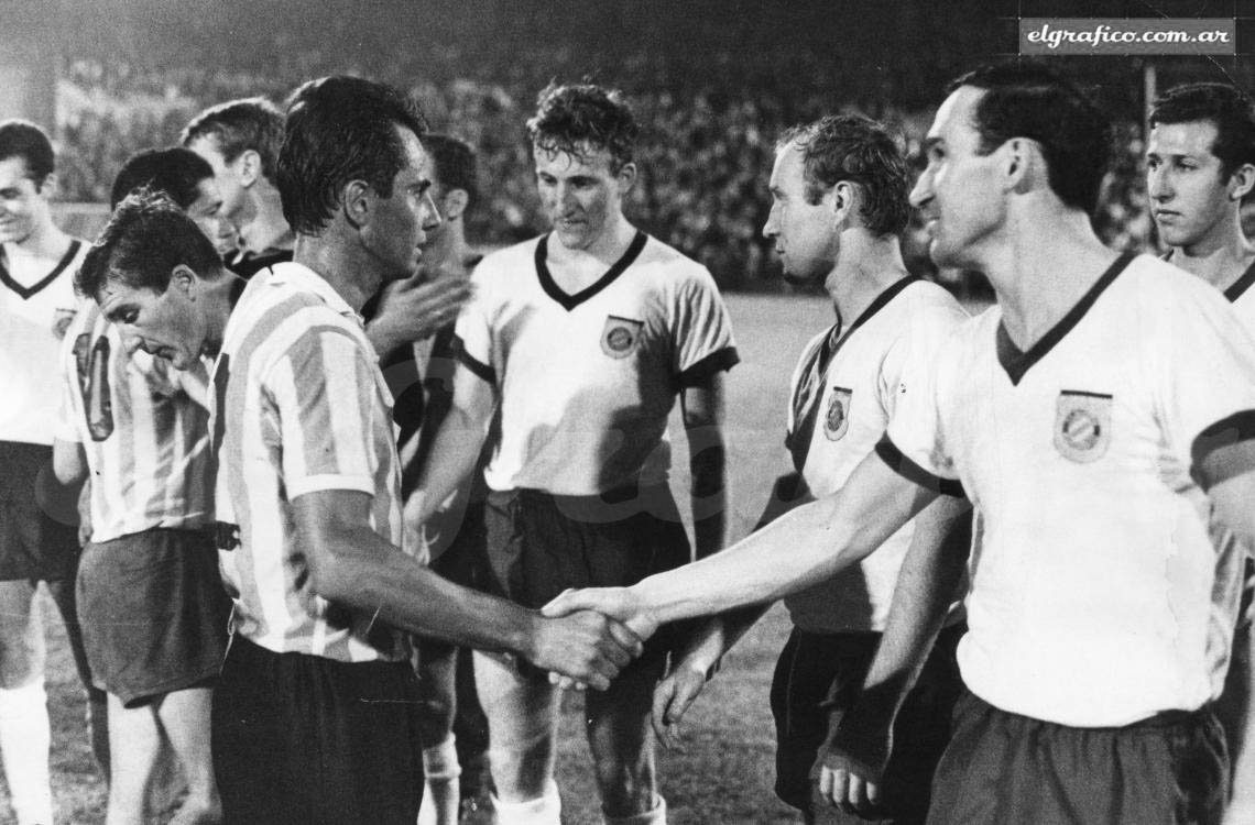 Players of Racing Club and FC Bayern Munich, saluting.